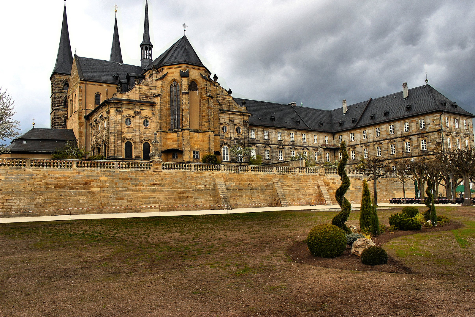 Church of Saint Michael in Bamberg Germany